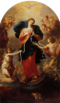 Mary untier of knots